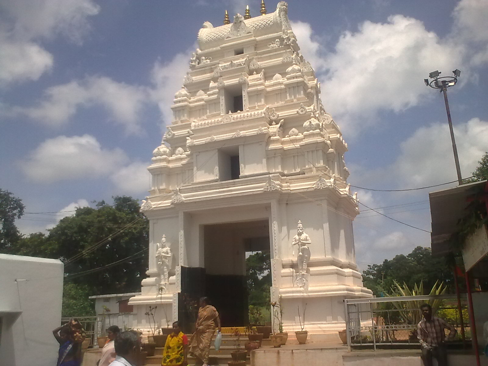 a photograph of anantha padmanabha swamy temple, located at ananthagiri hills,vikarabad,rangareddy district, andhra pradesh, india.